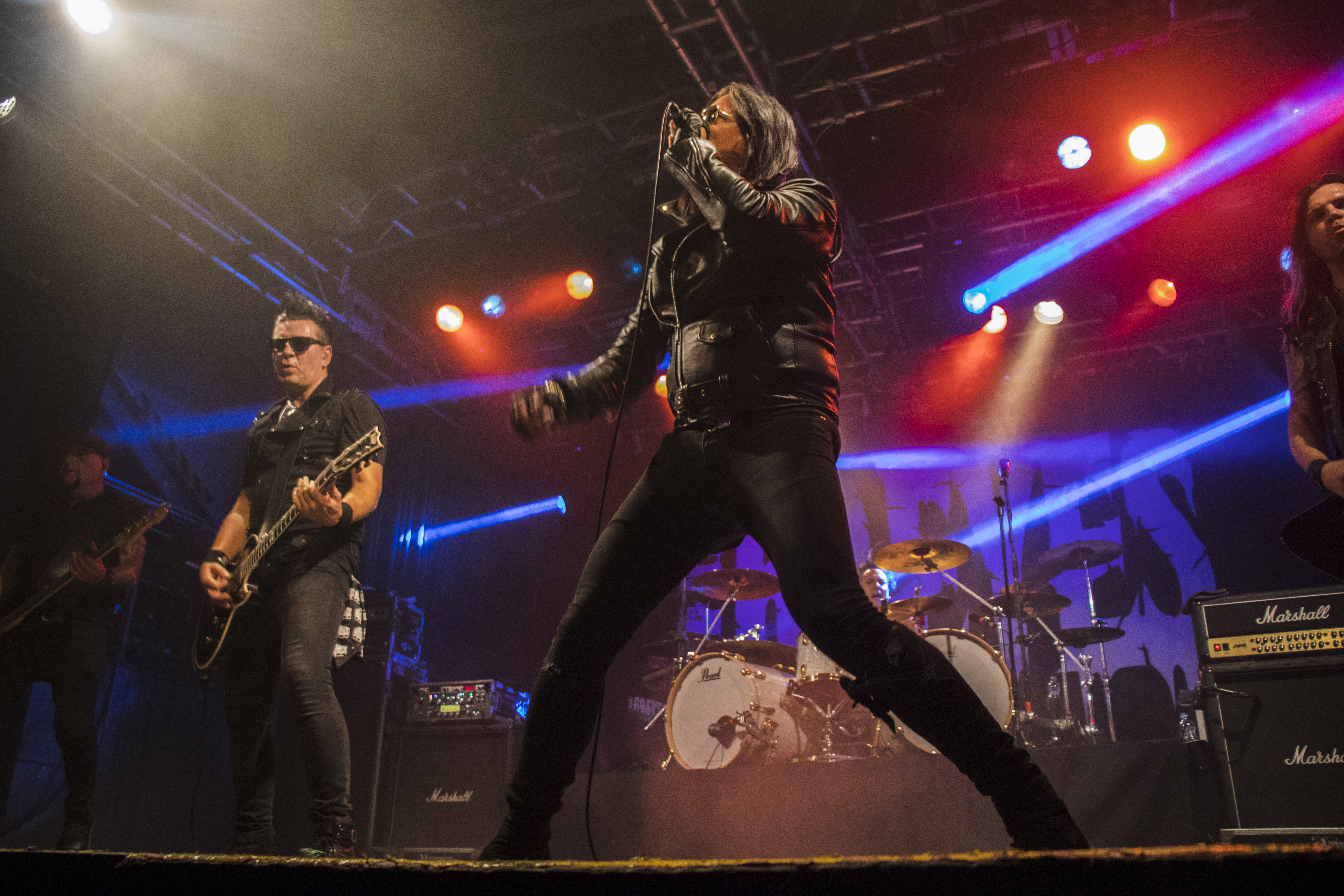 The 69 Eyes at Nosturi, Helsinki (Finland), 30 August 2019